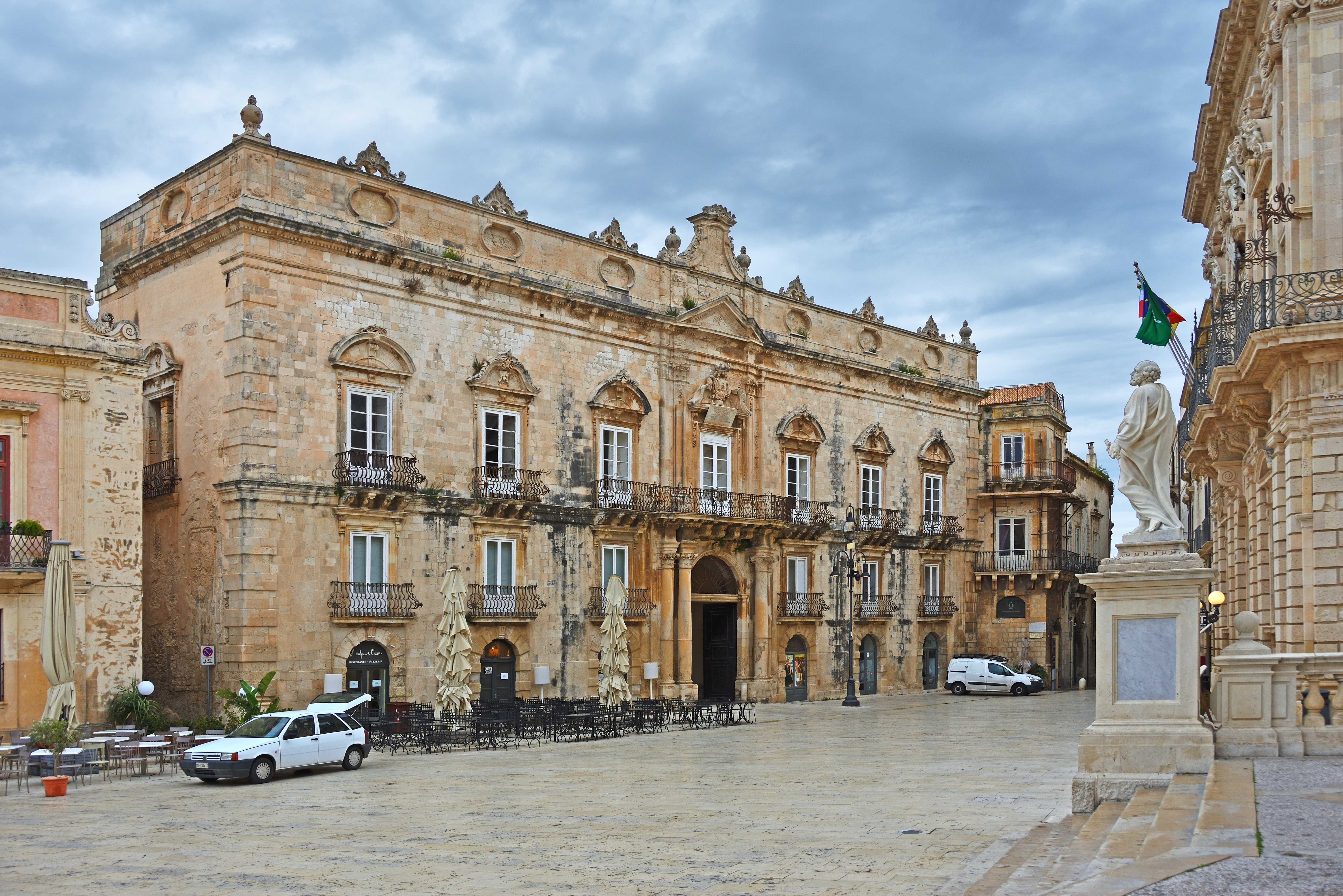 Palazzo Beneventano del Bosco, Syracuse, Sicily